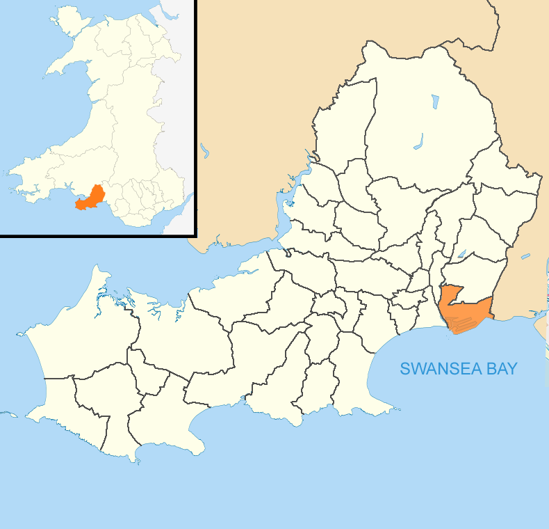 Location map of the community (civil parish) of St Thomas in the Swansea, Wales